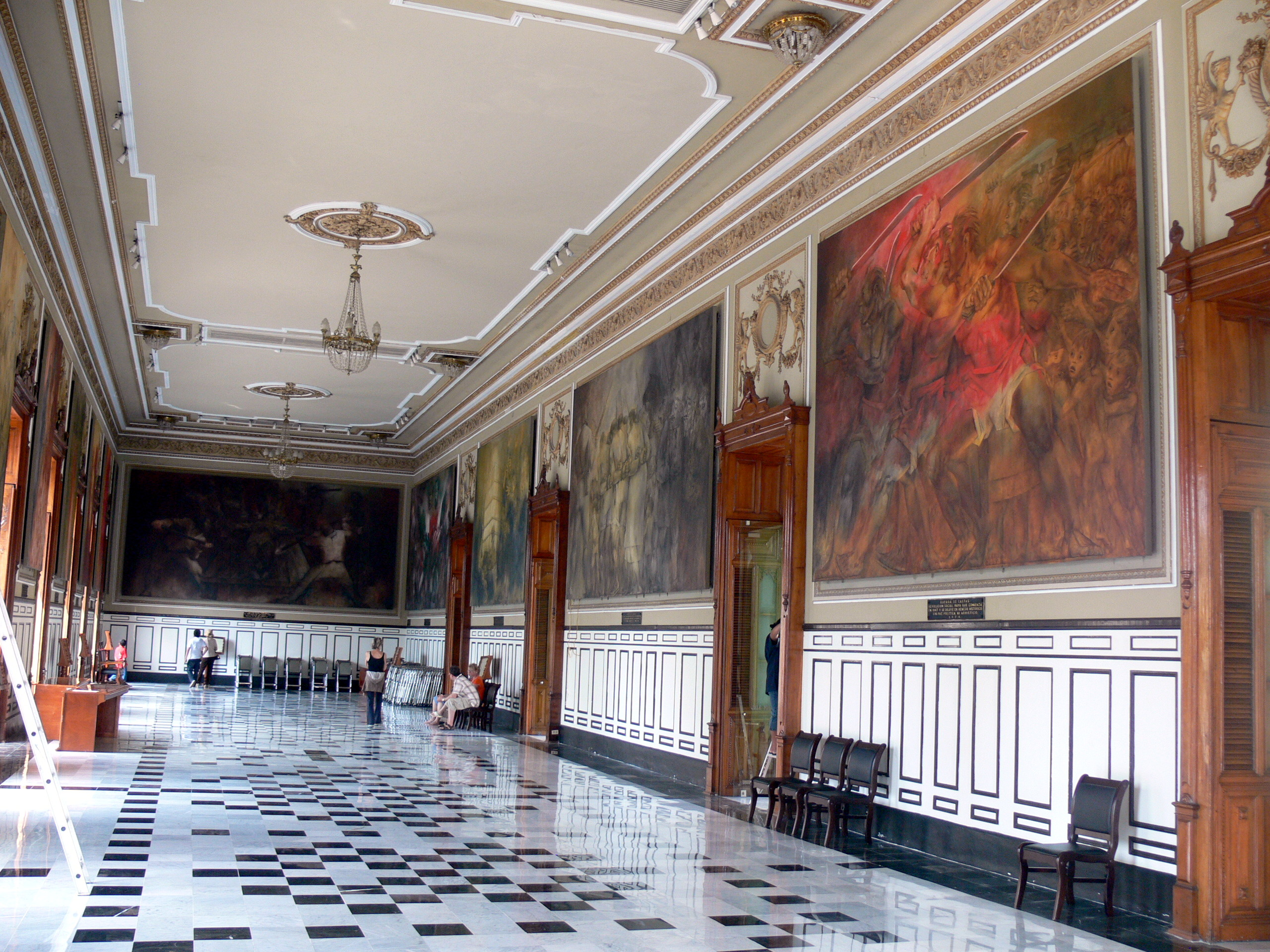 Mérida, Yucatán. Palacio de Gobierno - Great hall with murals by Fernando Castro Pacheco.